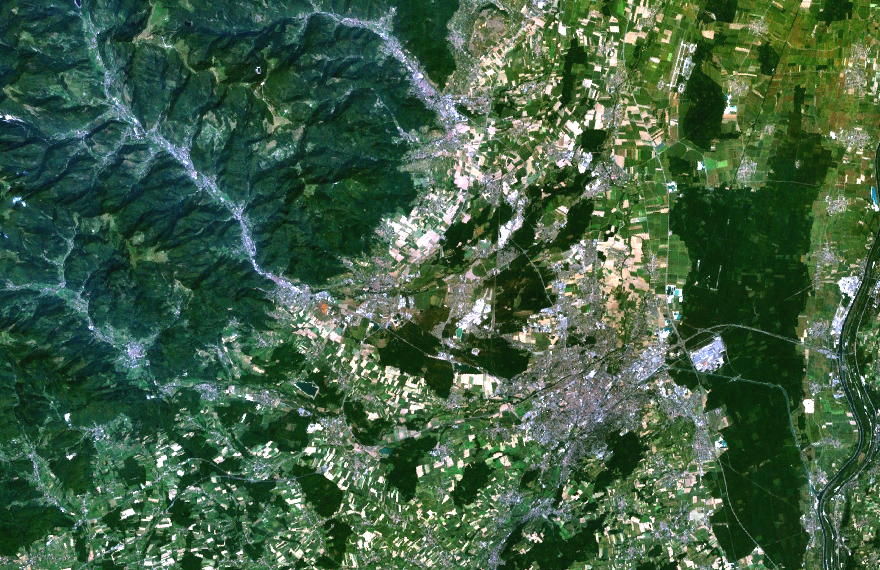 satellite picture of Mulhouse